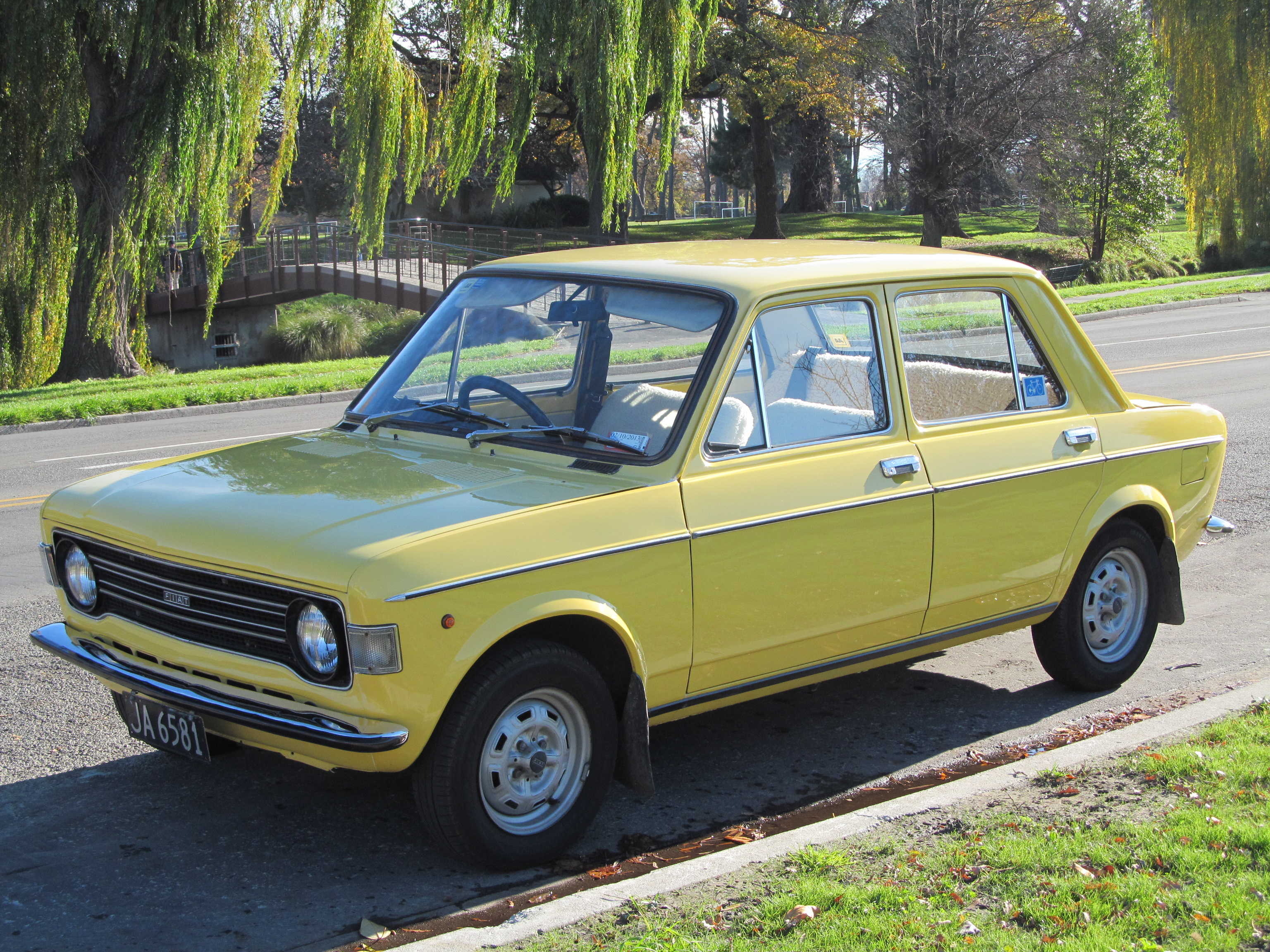 JA6581 I first spotted this last year, but as it was parked in a crowded car park my pictures of it weren't all that great, so when I saw it park up here I decided to get some better photos. It really is in absolutely mint condition for a 70s Fiat, and quite a sight in traffic today!